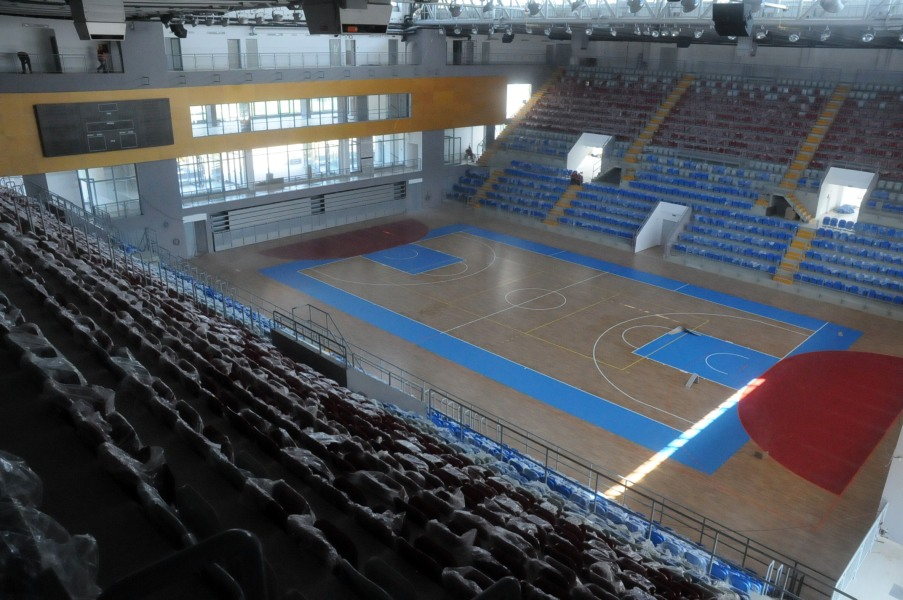 Kraljevo